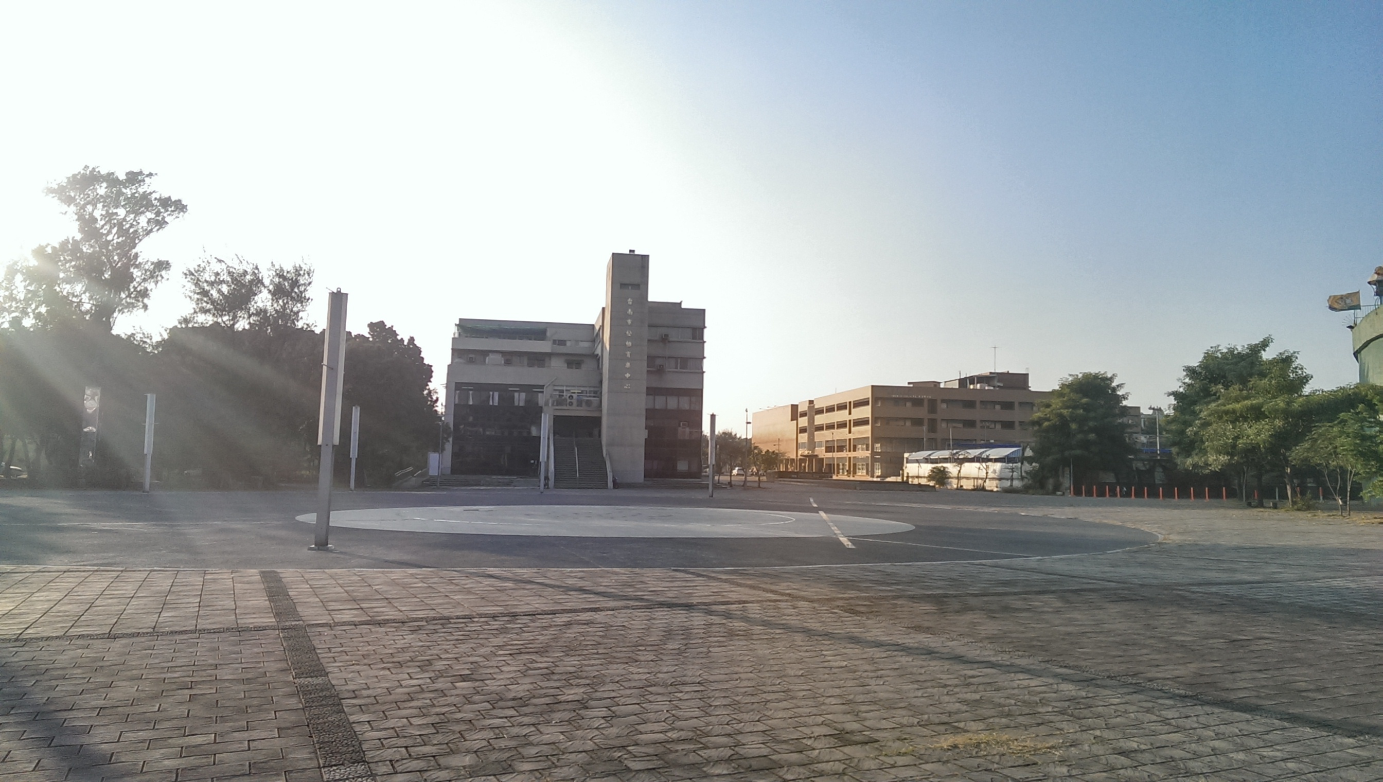 Heart of Stadium,TAINAN CITY,TAIWAN